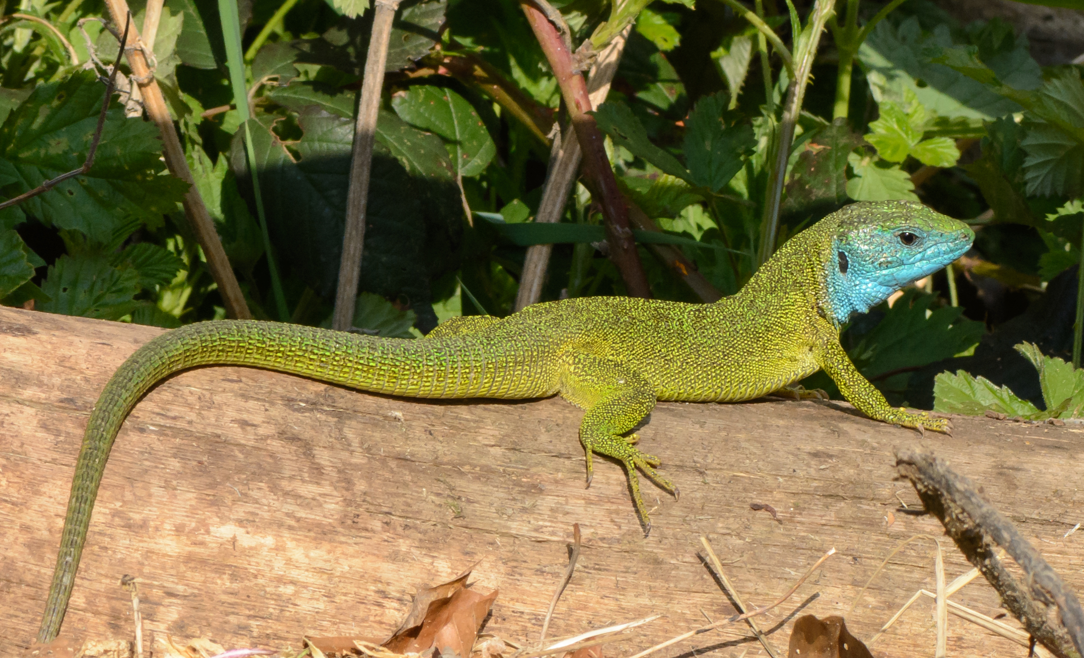 European green lizard (Lacerta viridis). This male individuum is approx. 35-40 cm long.